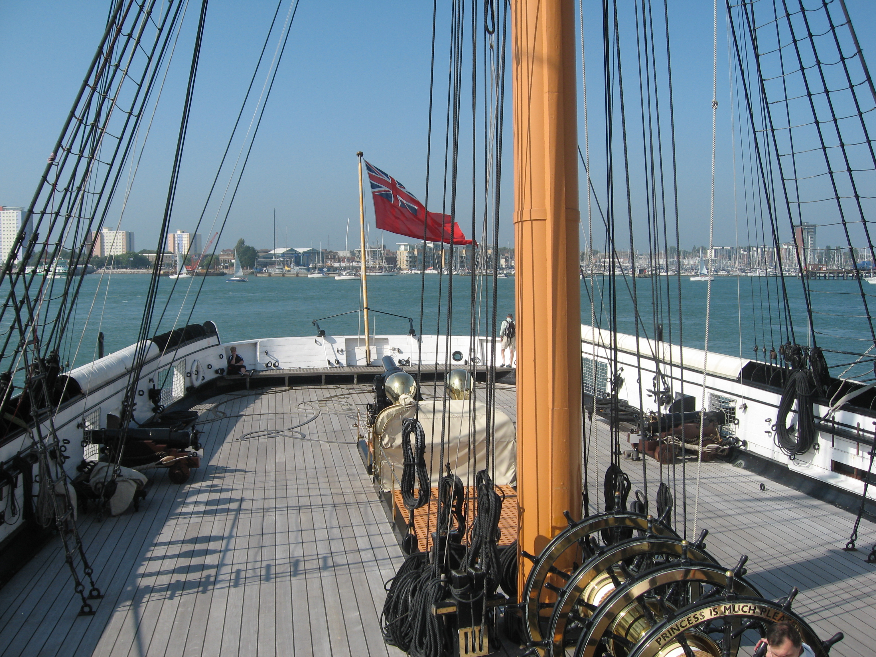 Photograph looking aft towards the quarterdeck of HMS Warrior. On left and right are broadside RBL 40 pounder 35 cwt Armstrong guns. Facting aft is a single RBL 7 inch Armstrong gun on a pivot mount.